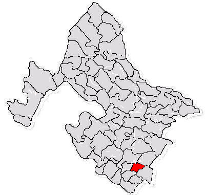 Locator map of Braniștea commune, Mehedinți County, Romania